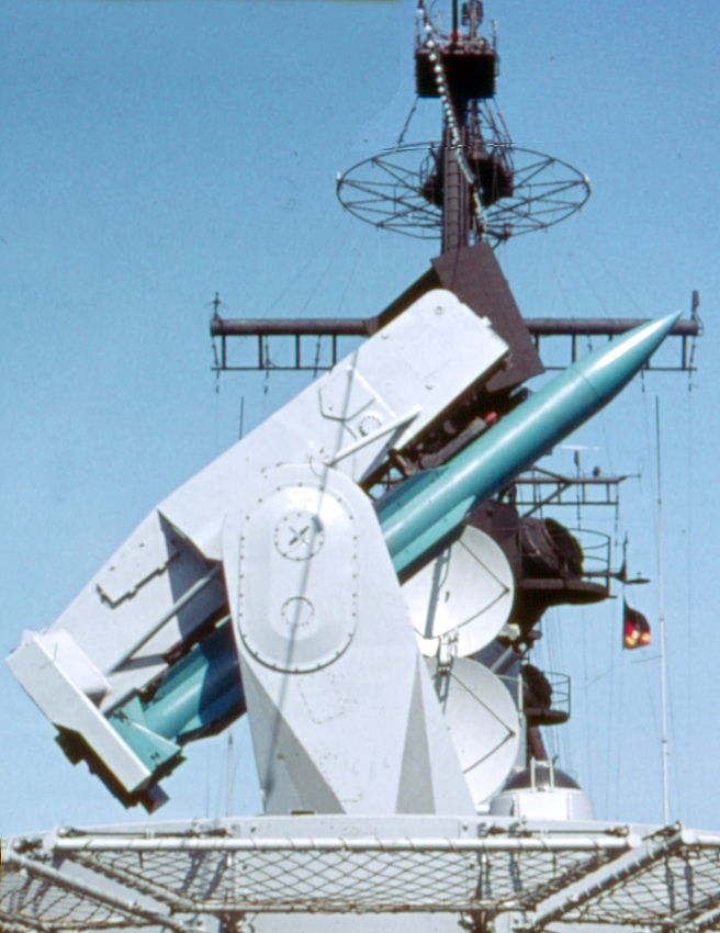 A Mk 13 Mod 1 missile launcher for the RIM-24 Tartar missille aboard the West German destroyer Lütjens (D185).